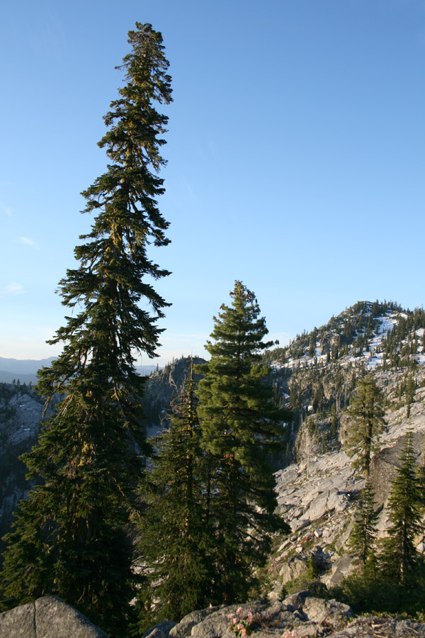 In the Marble Mountain Wilderness, a wide variety of terrain can be witnessed. Pacific Silver Fir Abies amabilis, pictured here in the southern part of the wilderness (specifically the Salmon Mountains), reaches the southern extent of its range near English Peak (also pictured).